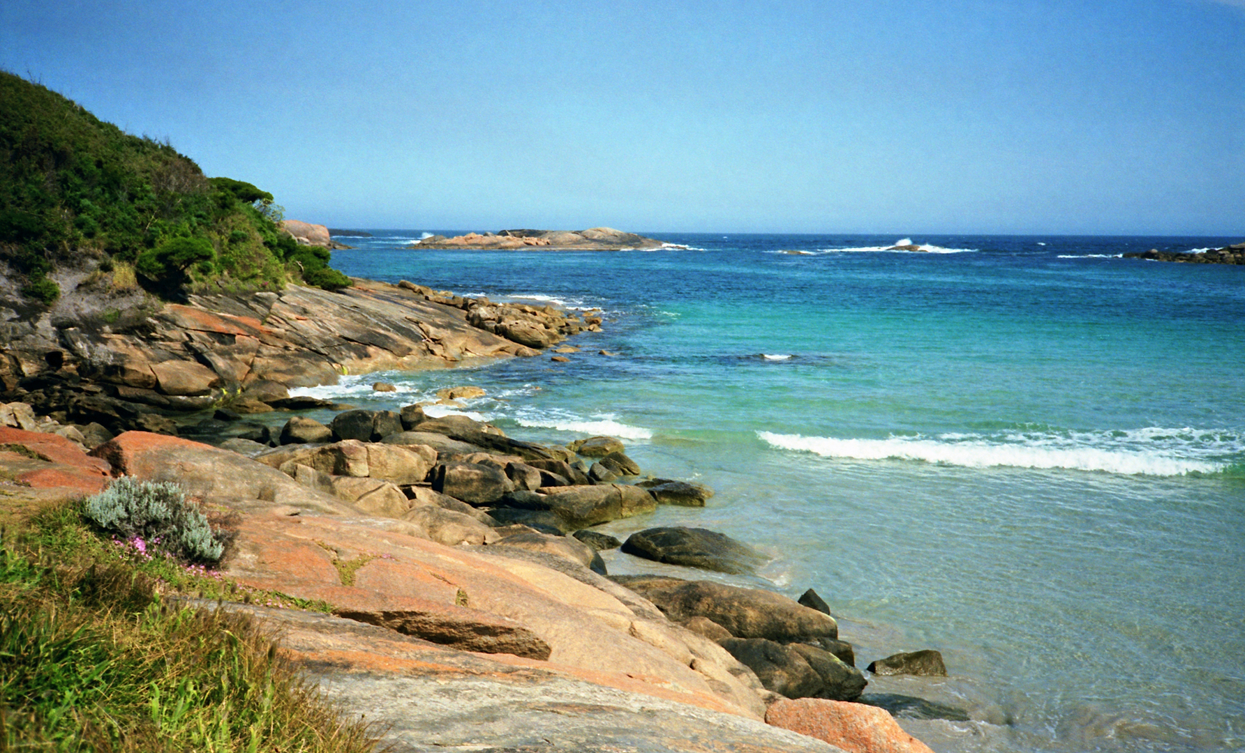 Nov 1992 - View near Shelter Island, WA